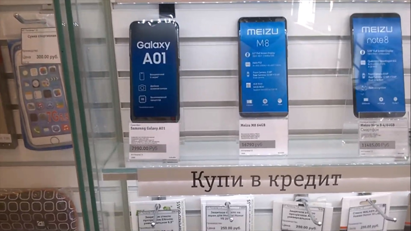 Smartphone Samsung Galaxy A01 (on the left side) photographed in a Russian telephone shop. Russia. April 9, 2020